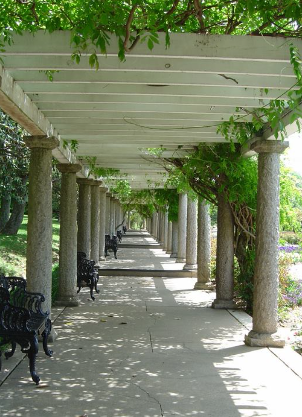 Arbor at Maymont's Italian garden